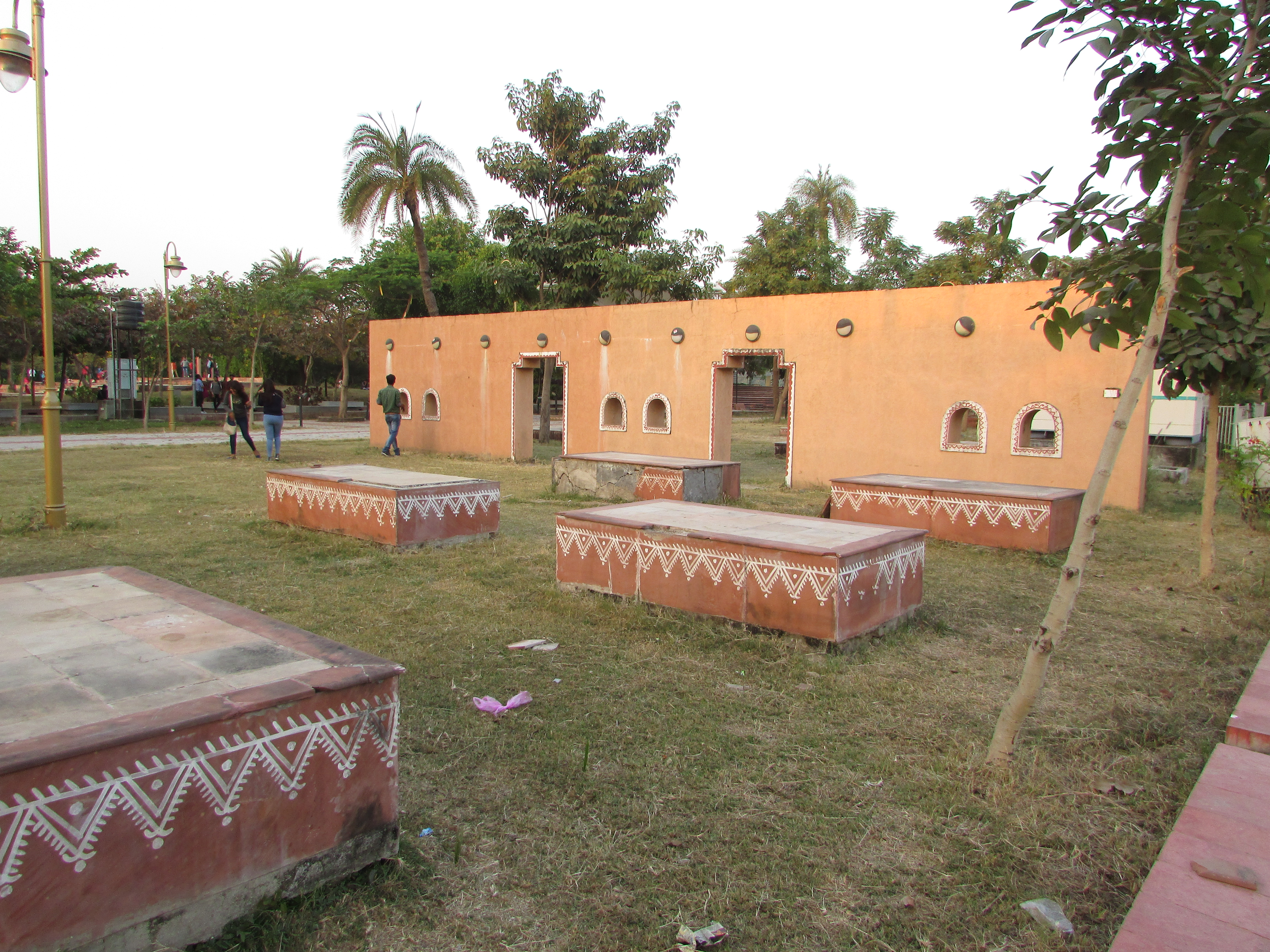 Rajasthani village, Indore